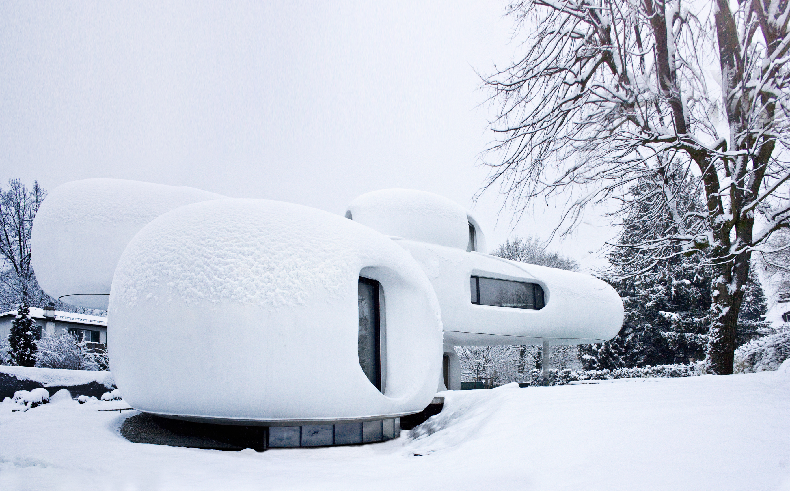 This picture is showing an blobitecture style building (often called Ufo Building Salzburg) under construction in Leopoldskron, a quarter of the city of Salzburg, Austria. - Designed by the architects Horst & Christine Lechner.